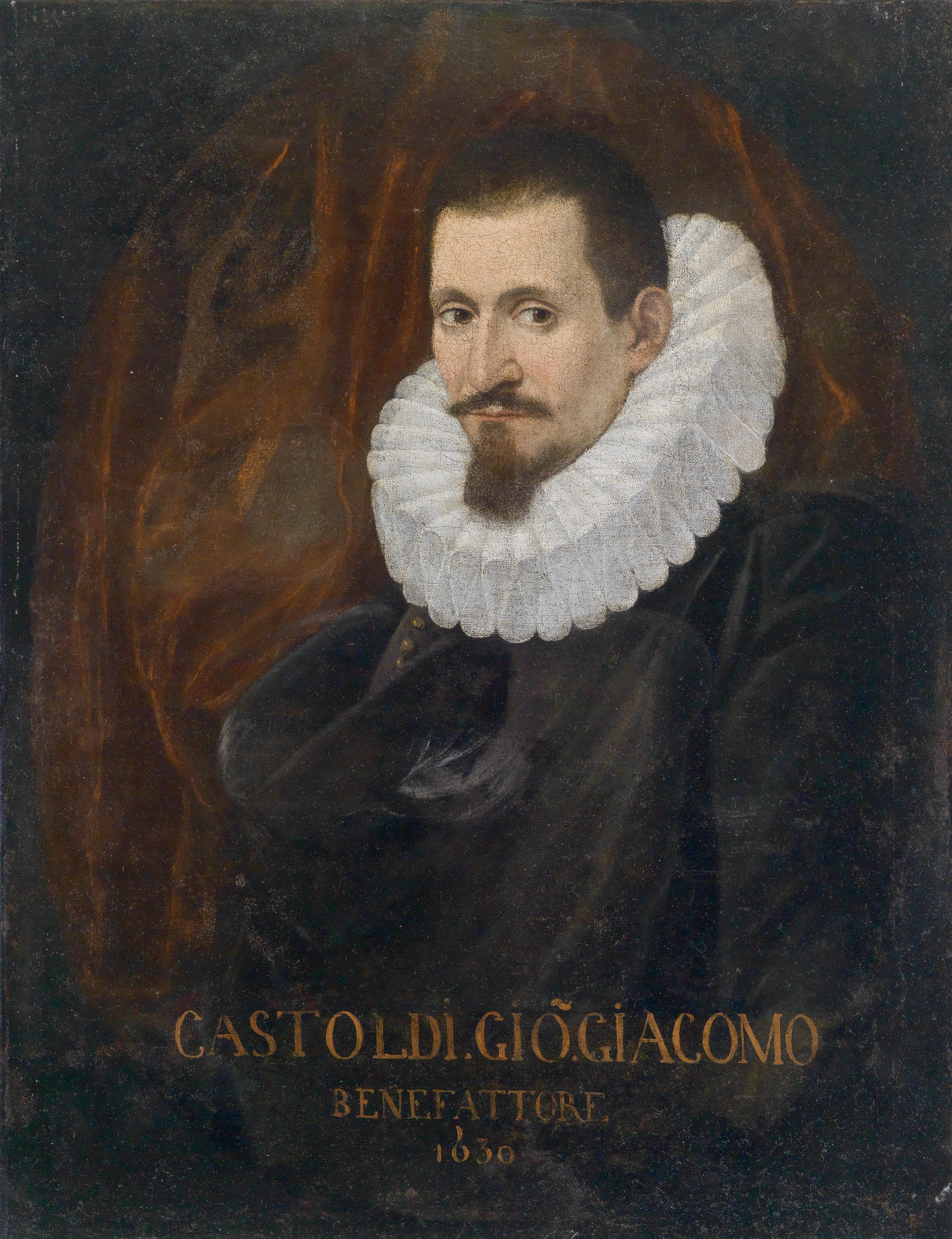 Giovanni Giacomo Gastoldi (c. 1556-after 1622)